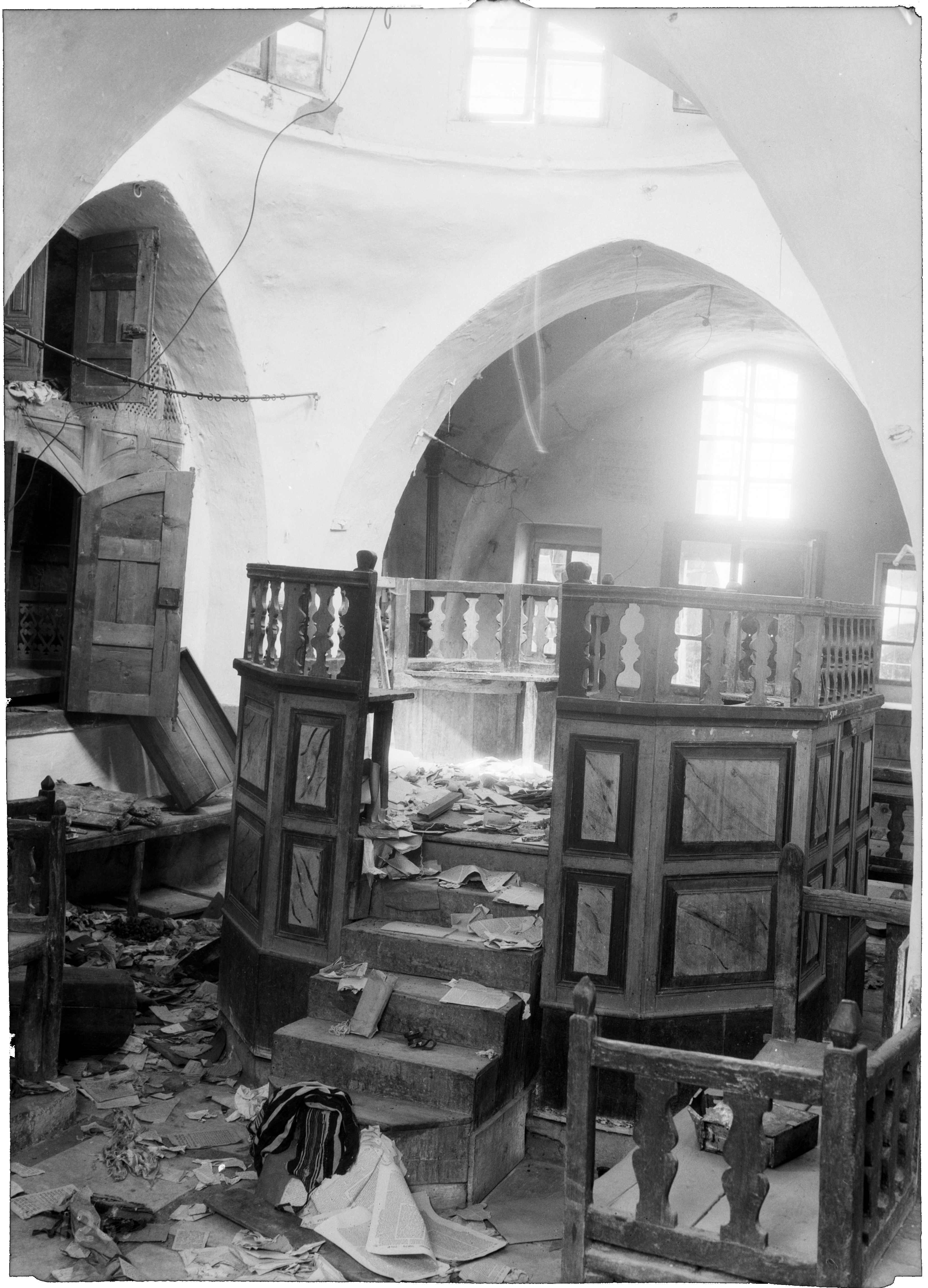 Palestine events. The 1929 riots, August 23 to 31. Synagogue desecrated by Arab rioters. Hebron. Furniture broken, floor littered with torn sacred books.